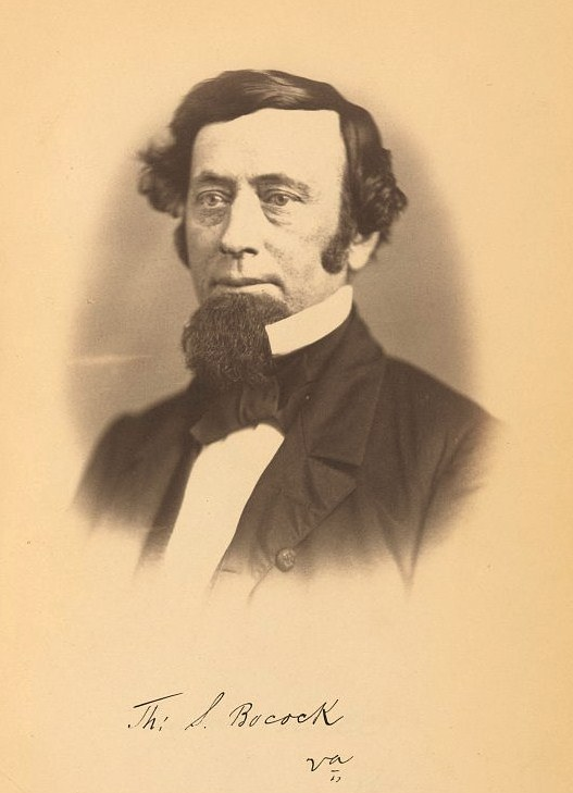 Portrait of Virginia Congressman Thomas S. Bocock